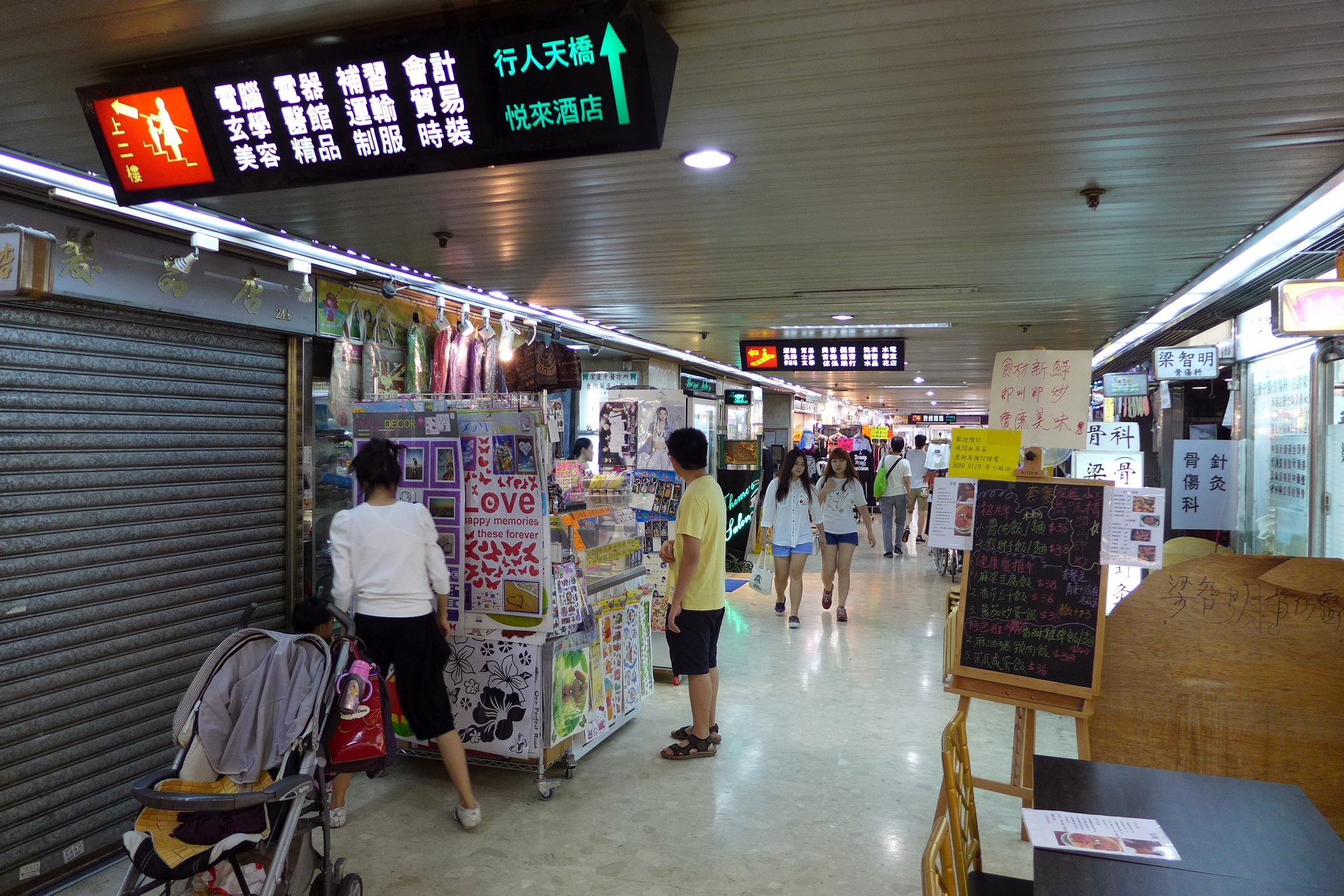 Tsuen Cheong Centre Access